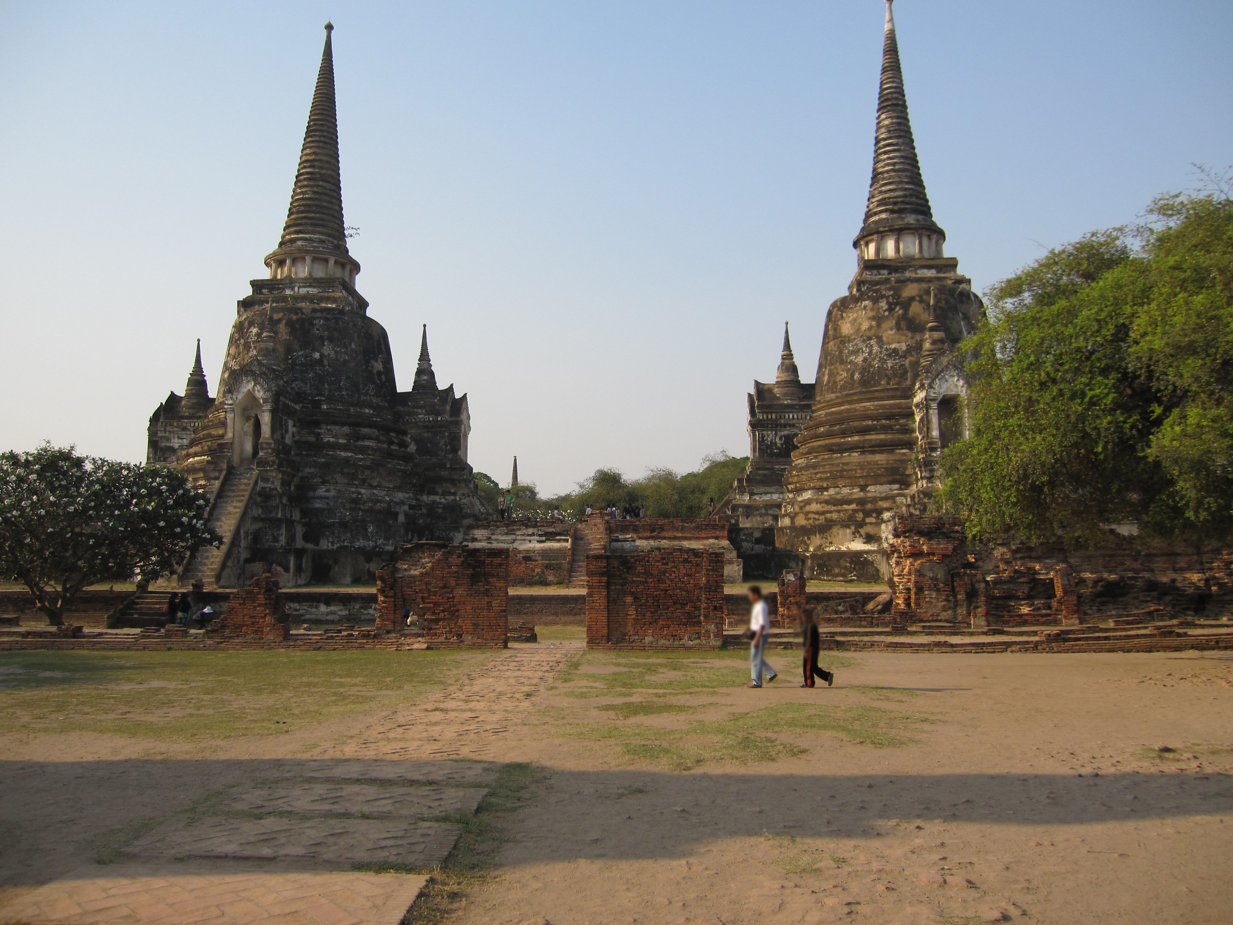 Wat Phra Si Sanphet